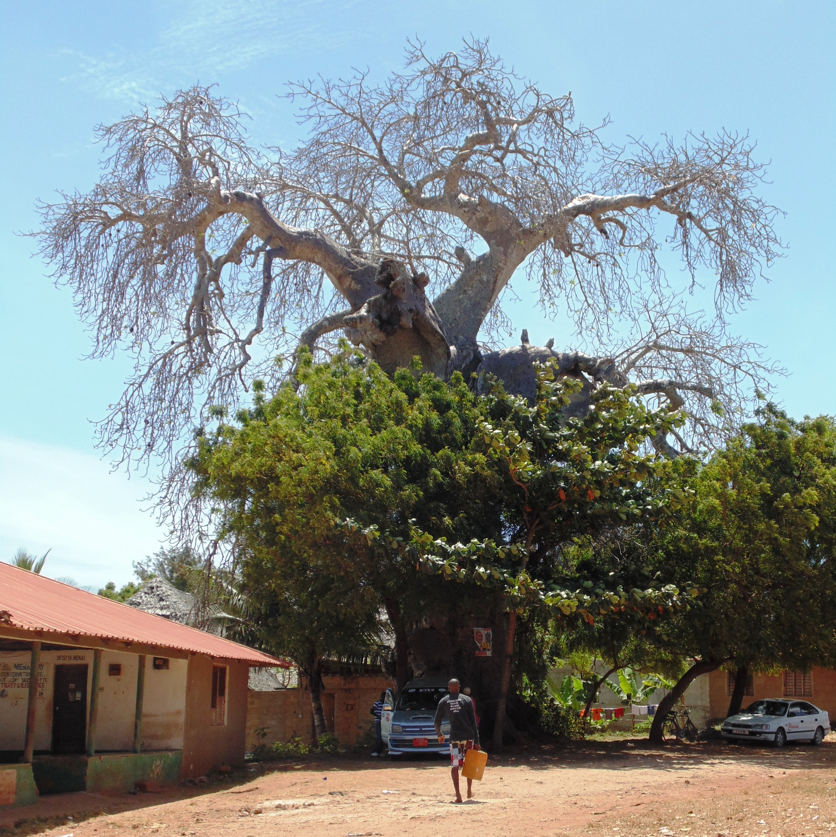 Kizimkazi